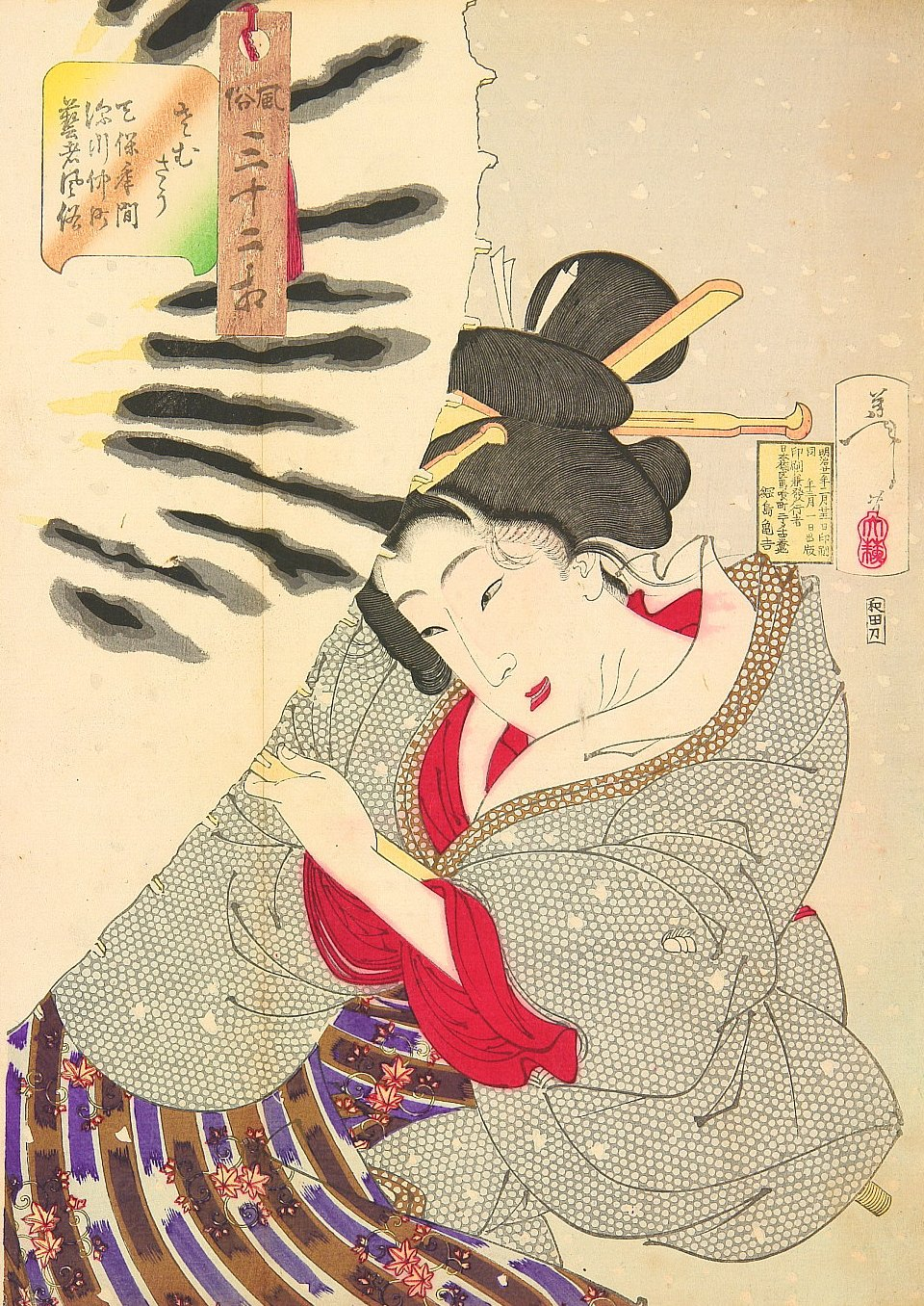 Looking cold - The appearance of a Fukagawa Nakamichi Geisha of the Tempo era (1830-1844). No. 11 in the ukiyo-e print series Thirty-Two Aspects of Customs and Manners.